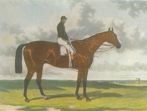 Cotherstone, winner of the 1843 Epsom Derby. Artist unknown, but given the date, has been dead for well over 100 years.